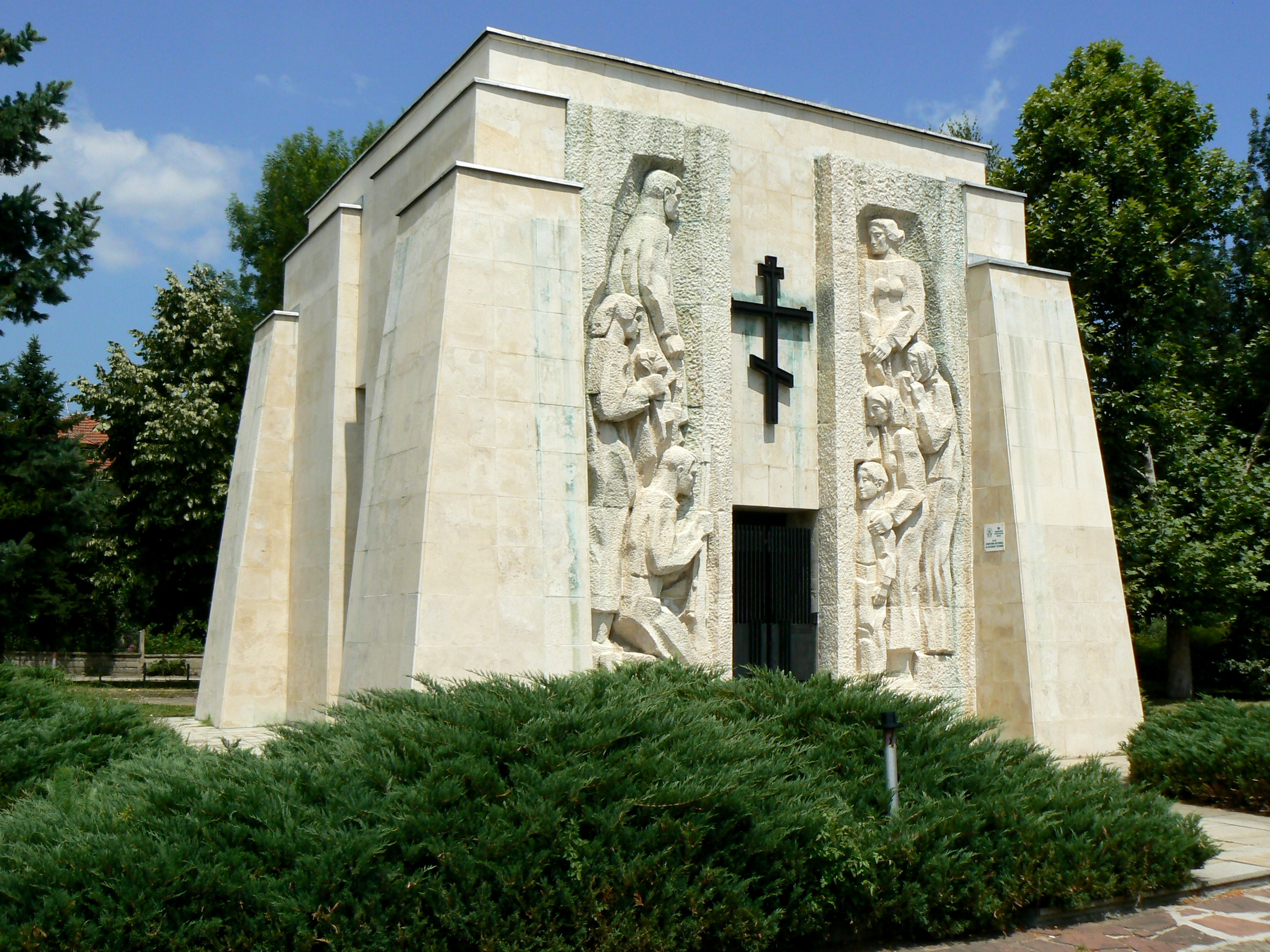 Memorial ossuary of Hristo Botev and his comrade revolutionaries, in village Skravena, Bulgaria.